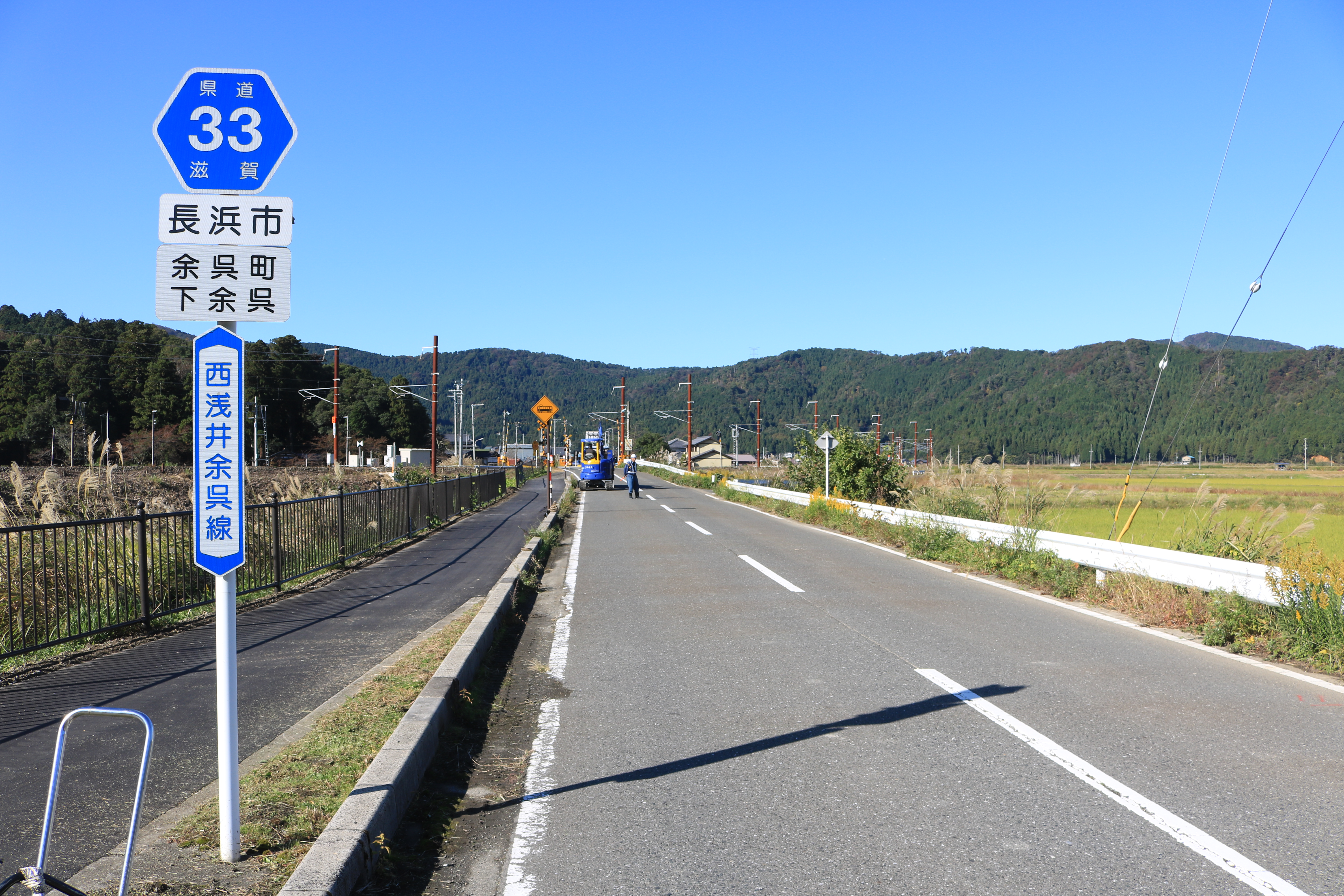 Shiga Prefectural Road Route 33 in Shimoyogo, Yogocho, Nagahama, Shiga Prefecture, Japan.